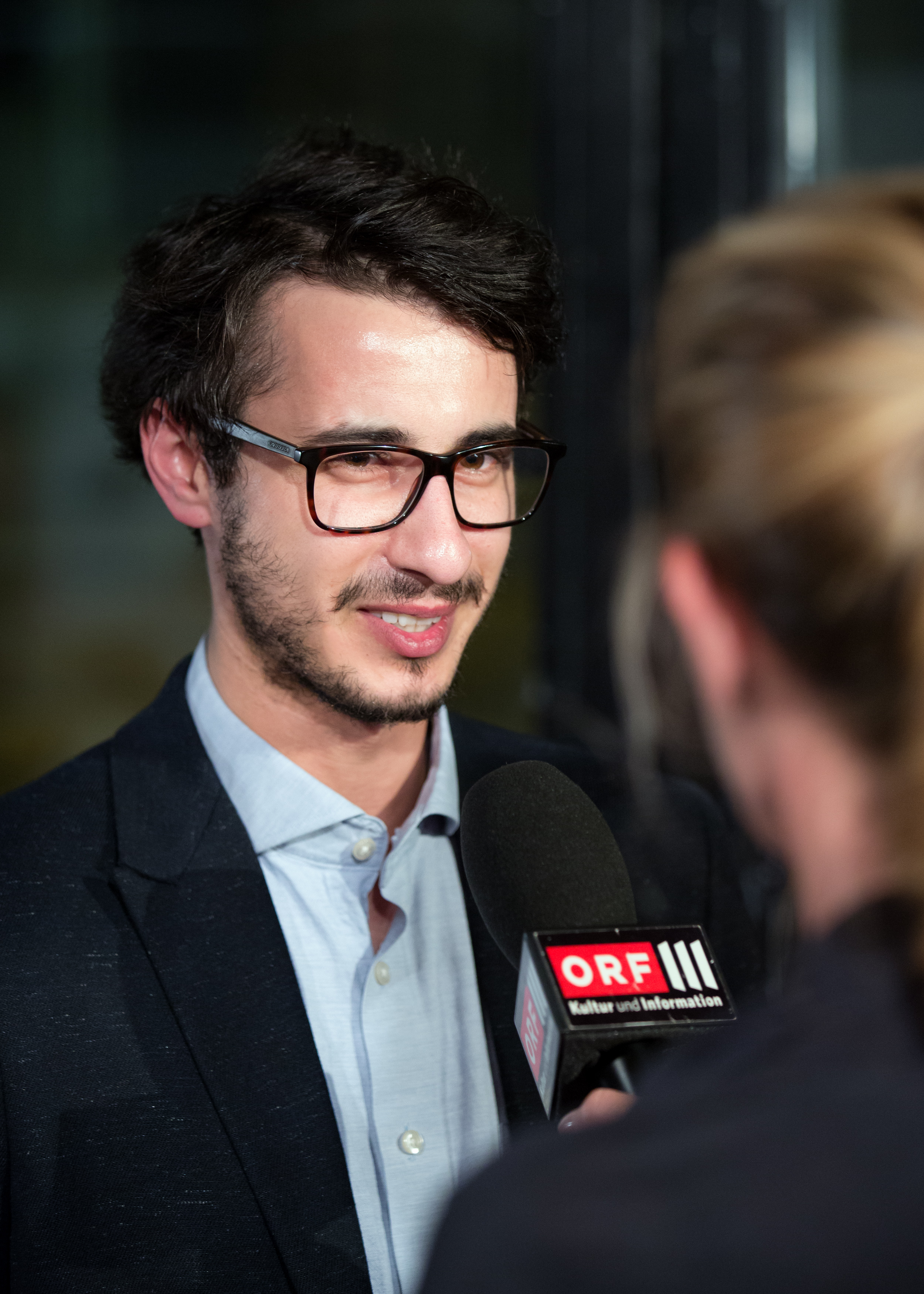 Michał Błaszczyk at Vienna Independent Shorts 2016 (Künstlerhaus, Vienna, Austria).